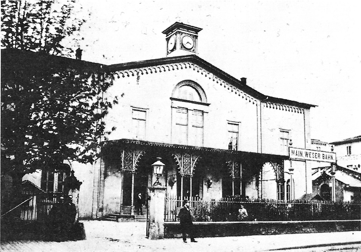 The Main-Weser station in Frankfurt with its annex around 1889